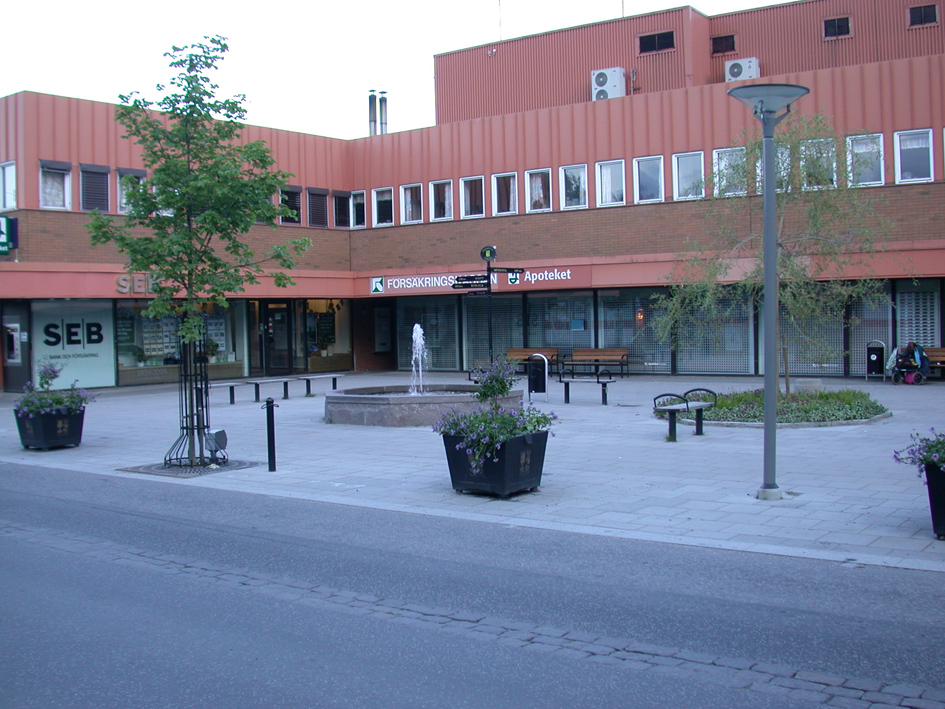 Skräddartorget market square (Taylor Square) in Vingåker, Sweden.